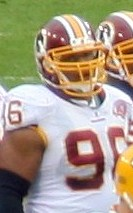 Cornelius Griffin waiting for the play to begin